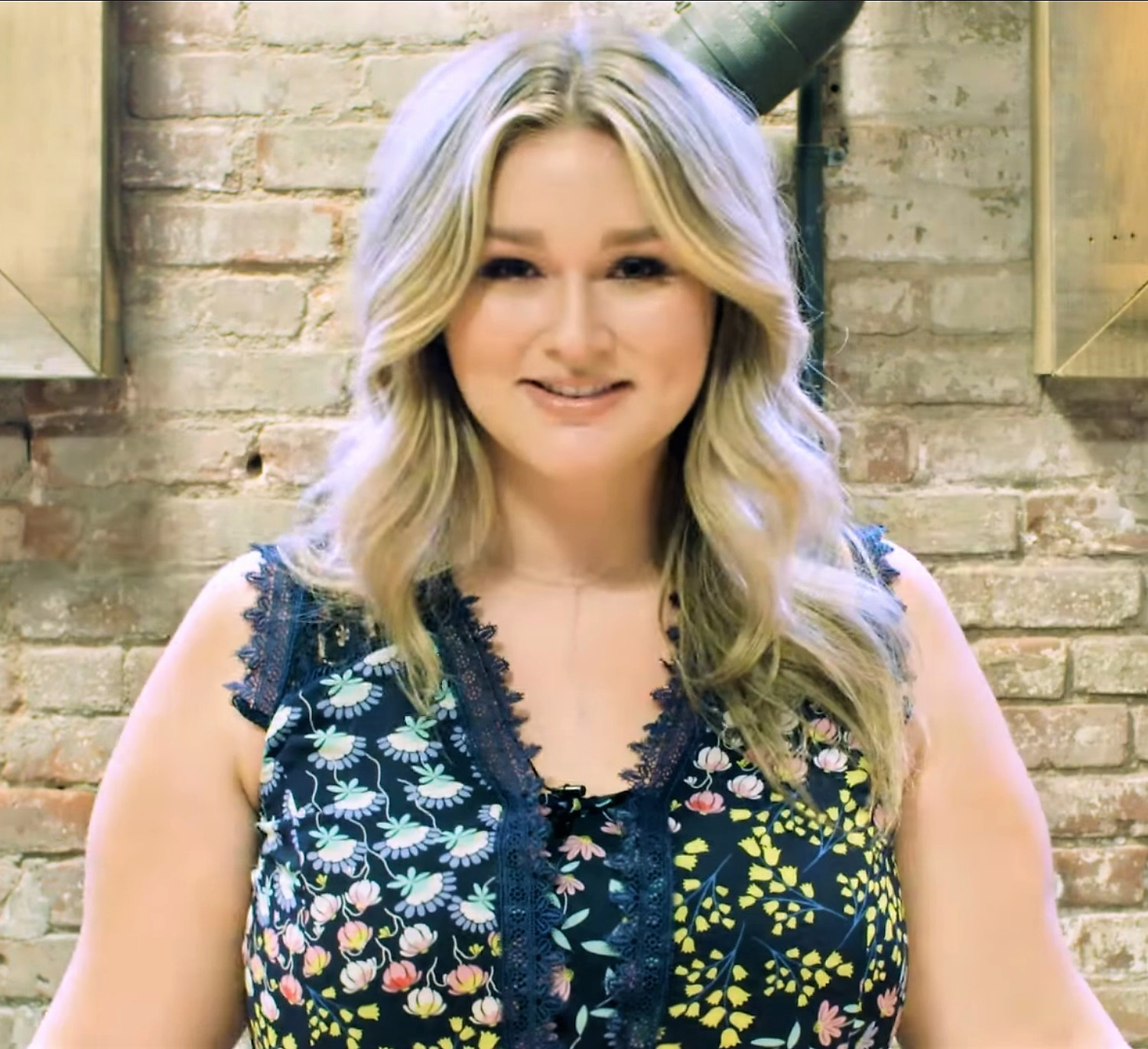 Hunter McGrady 17 Favorite Things on Cntrl+Alt+Delete